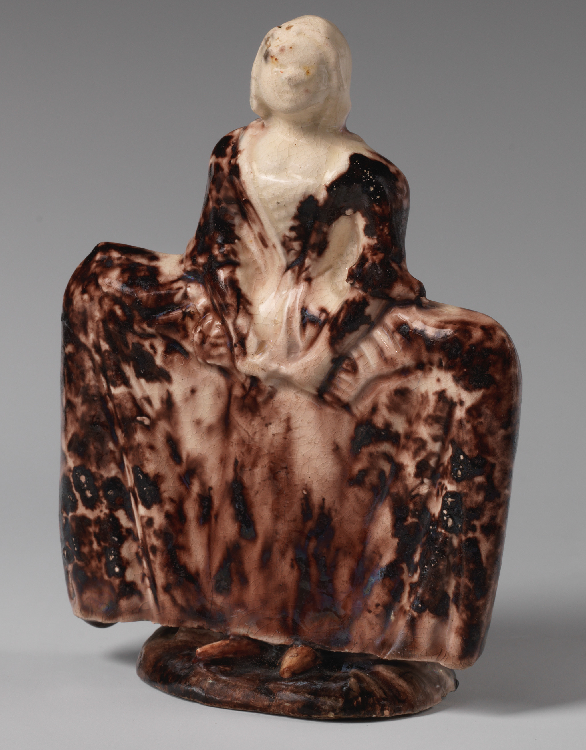 British, Staffordshire; Figure; Ceramics-Pottery